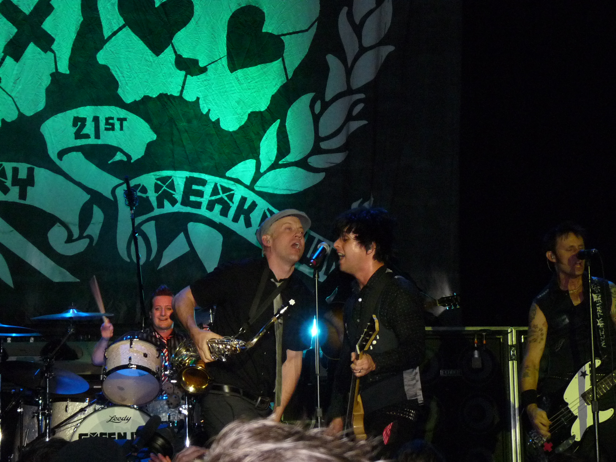 am]|1=Green Day performing at their 21st Century Breakdown release party, 7 May 2009.